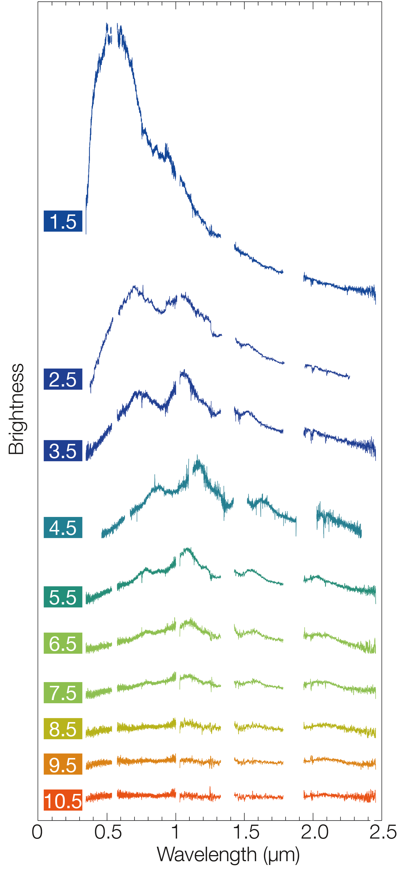 This montage of spectra taken using the X-shooter instrument on ESO's Very Large Telescope shows the changing behaviour of the kilonova AT 2017gfo in the galaxy NGC 4993 over a period of 12 days after the explosion (GW170817) was detected on 17 August 2017. Each spectrum covers a range of wavelengths from the near-ultraviolet to the near-infrared and reveals how the object became dramatically redder as it faded.